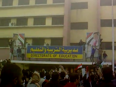 Protesters removing portraits of Ex-president Mubarak in Sohag City in upper Egypt